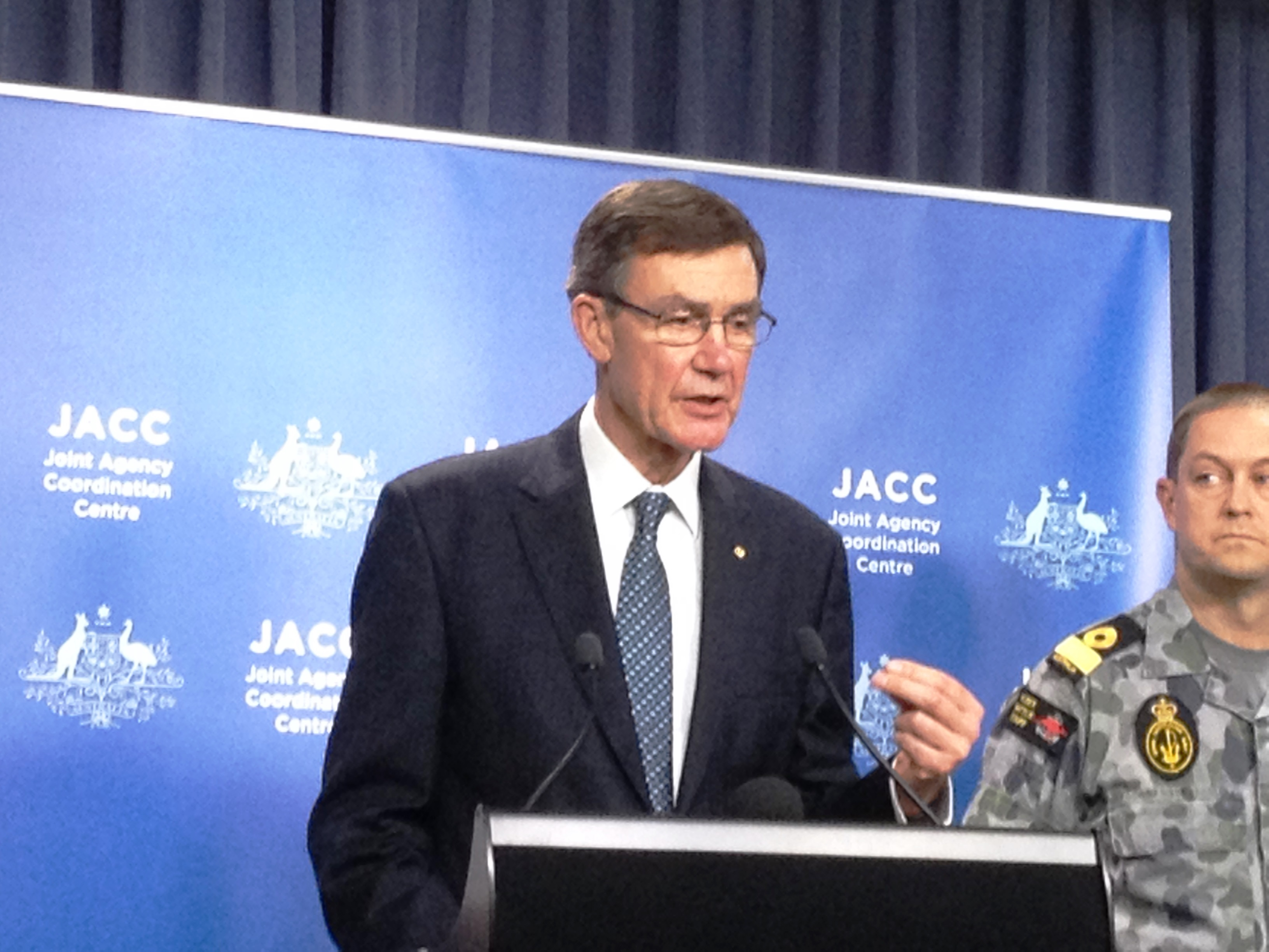 Angus Houston speaking at Joint Agency Coordination Center press conference, Perth, 14 April 2014